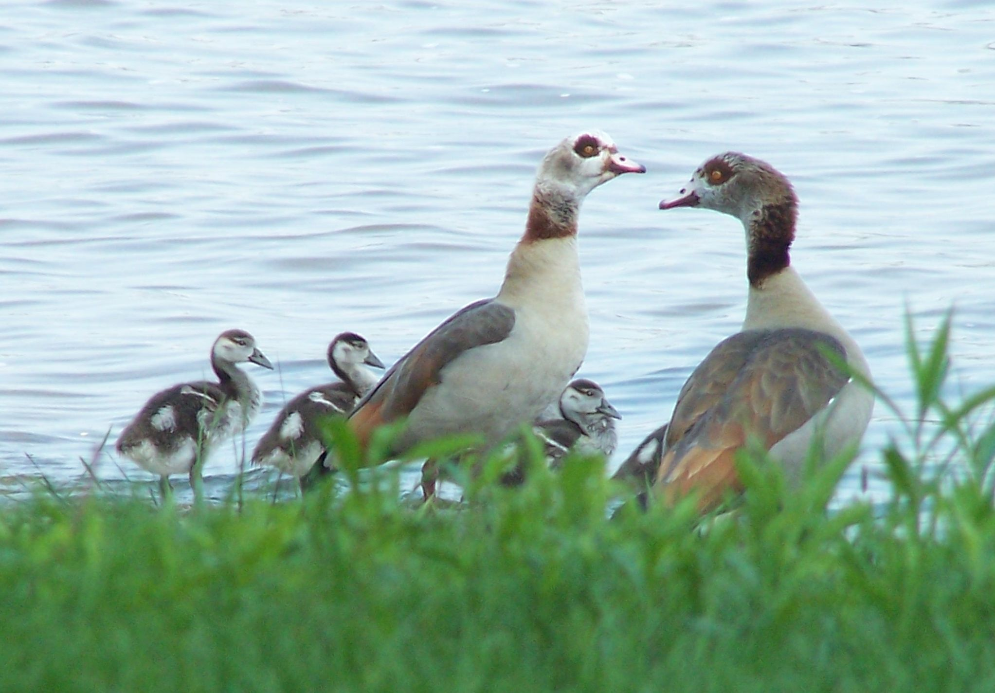 Egyptian Goose with their offspring on the left bank of the river Rhein near Kaltenengers, Rhineland-Palatinate, Germany